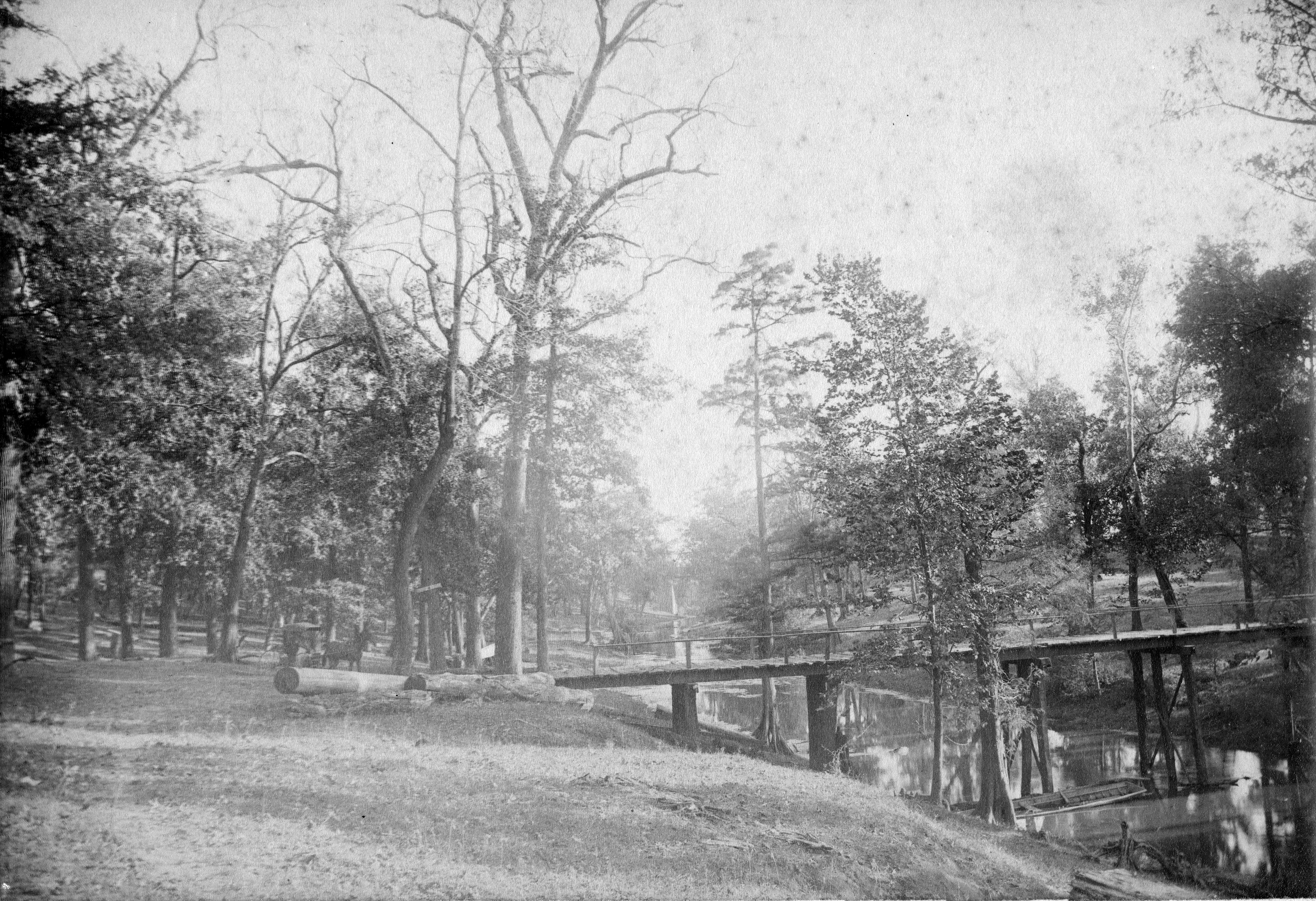 Sunflower River Bridge, Clarksdale, Mississippi. The bridge was located between the modern locations of the 1st and 2nd Street Bridges.